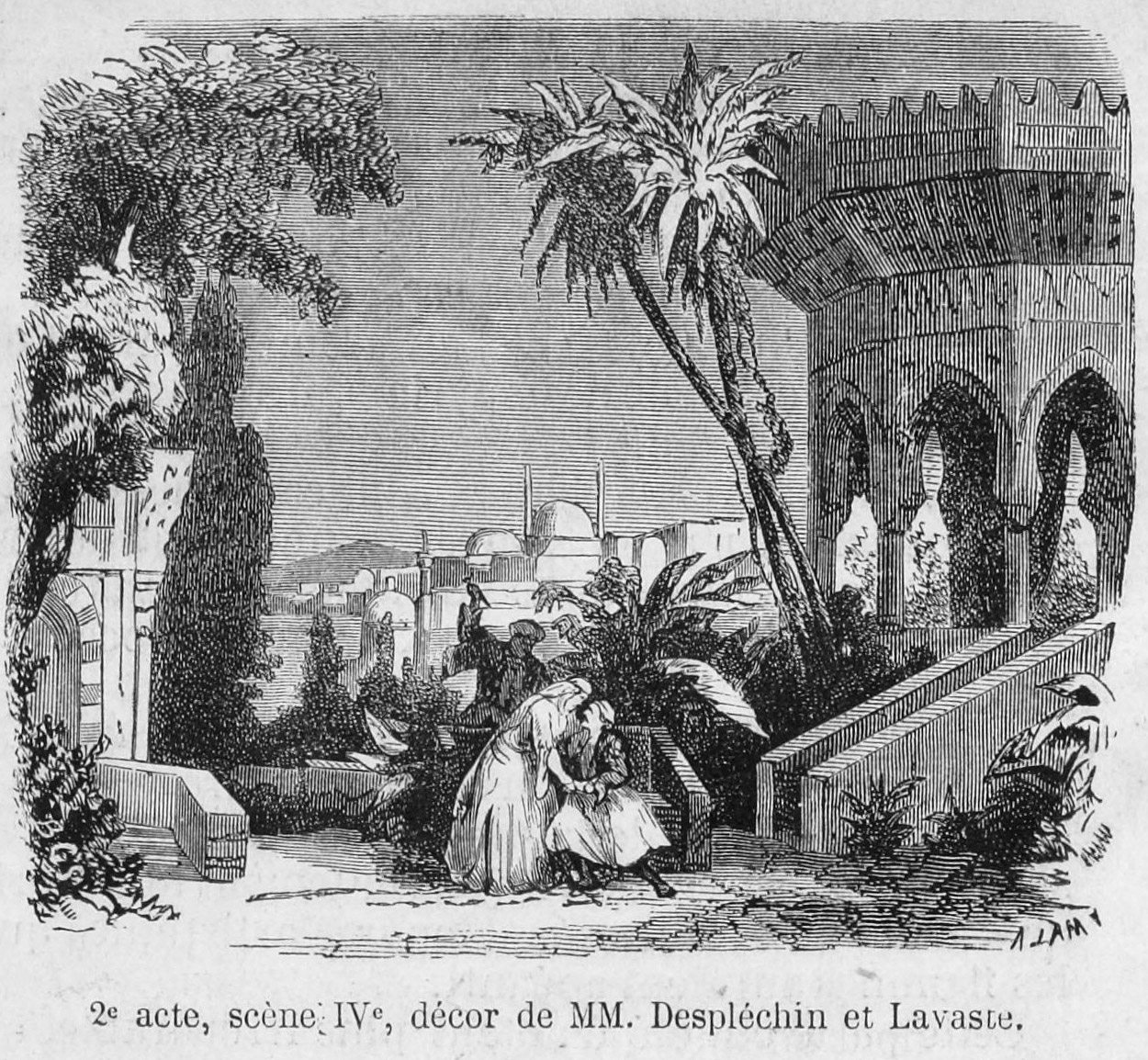 Press illustration of Act 2 (scene 4) of Adrien Barthe's 4-act opera La fiancée d'Abydos, which premiered at the Théâtre Lyrique in Paris on 30 December 1865